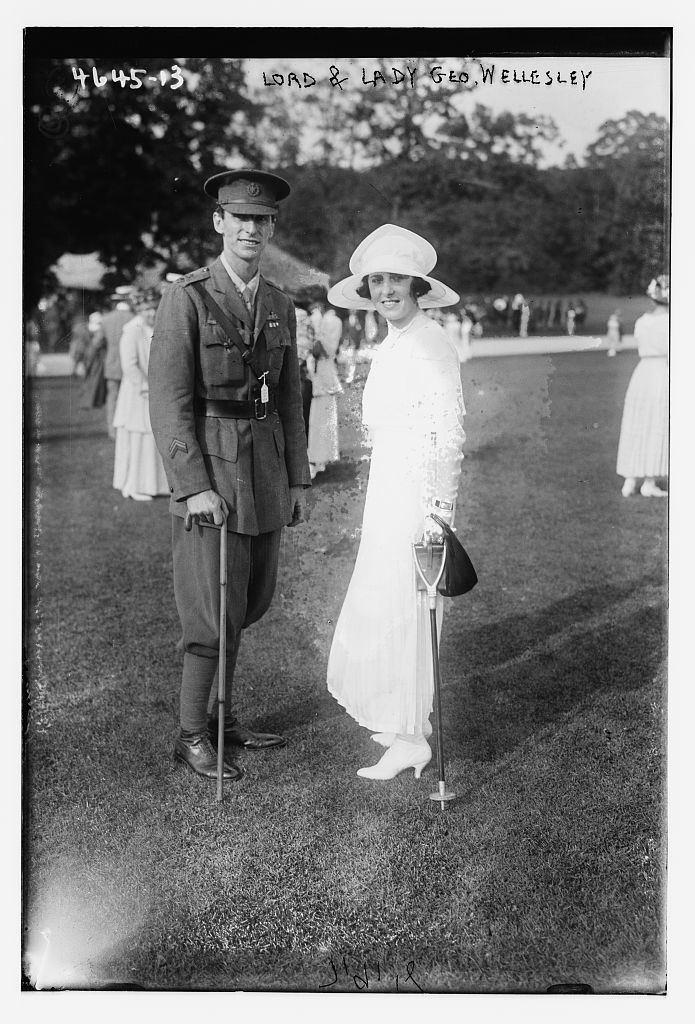 Lady Louise Nesta Pamela FitzGerald and Lord George Wellesley in 1918